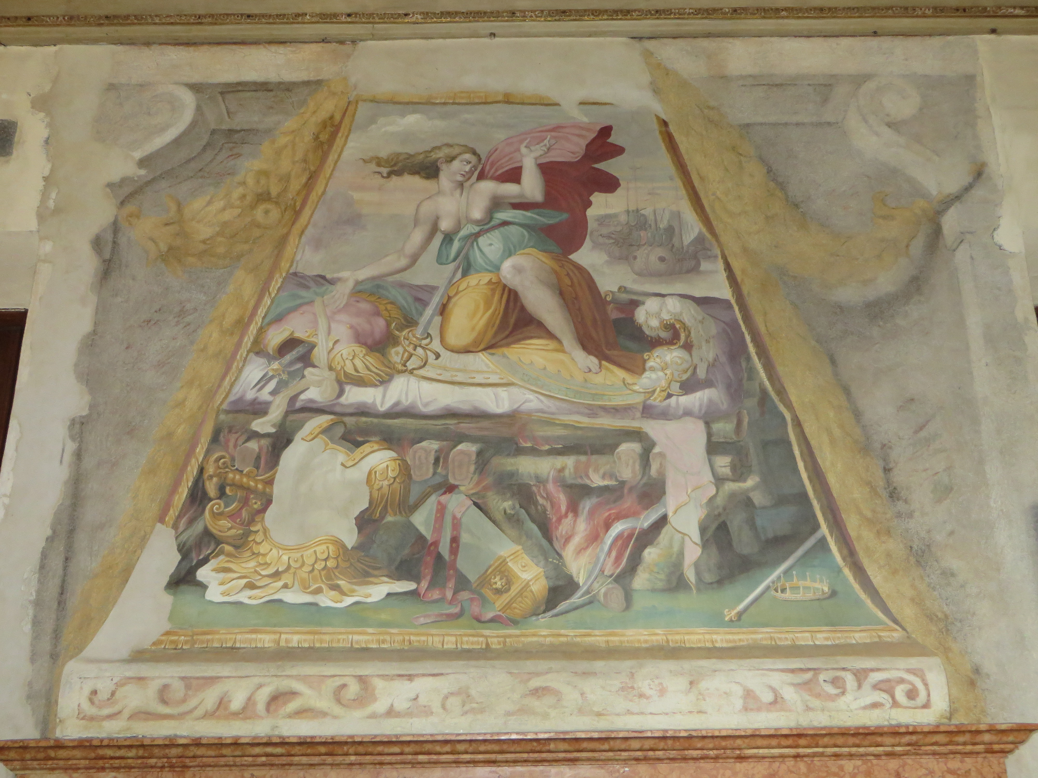 Rossi Castle San Secondo 5